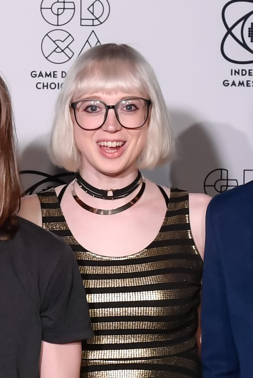 By Official GDC - CC BY 2.0